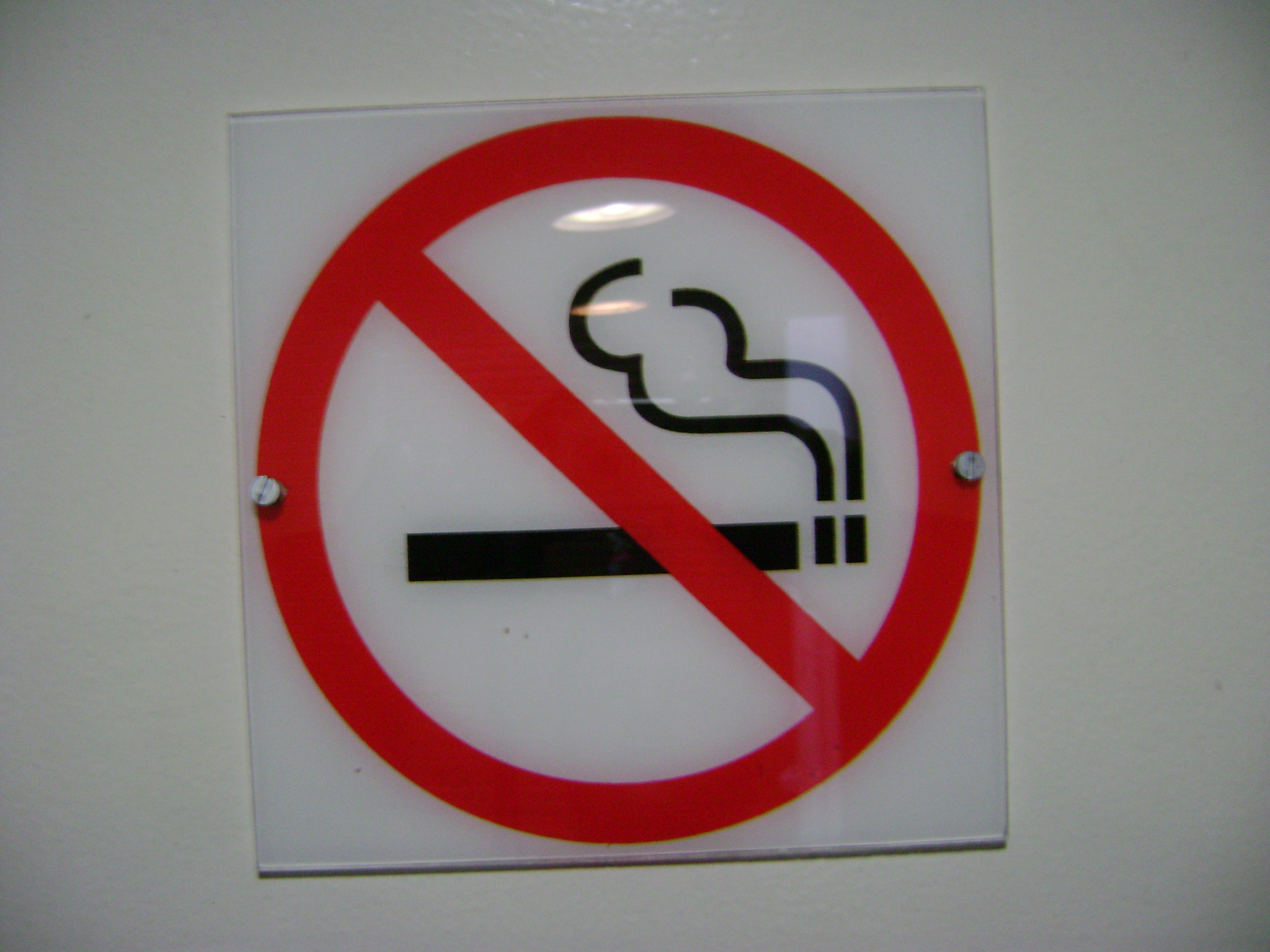 Logotipo de "proibido fumar", no shopping Pátio Savassi, em Belo Horizonte.